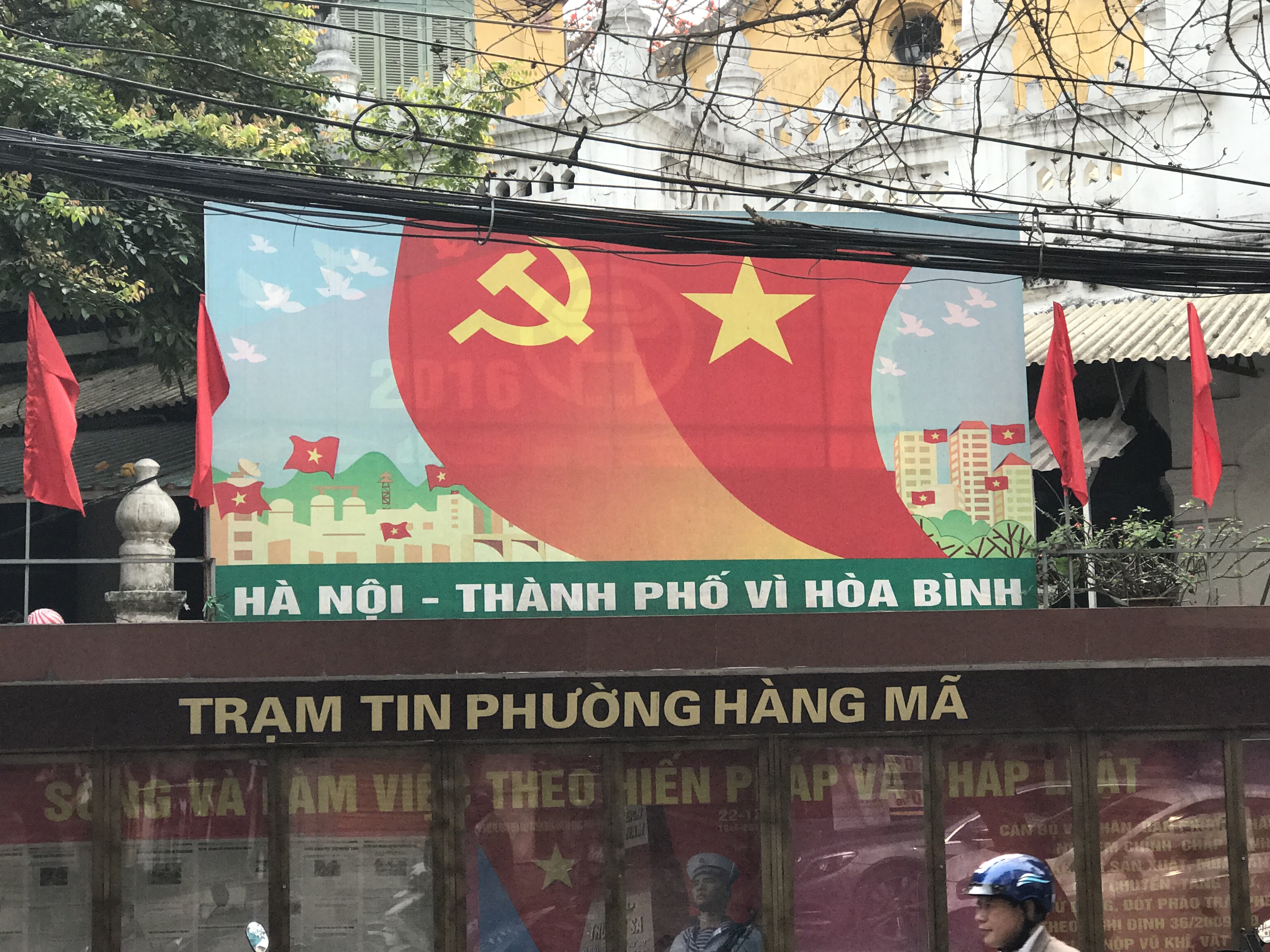 Communist Party of Vietnam Poster in Hanoi: Text Reads: HÀ NỘI - THÀNH PHỐ VÌ HOÀ BÌNH